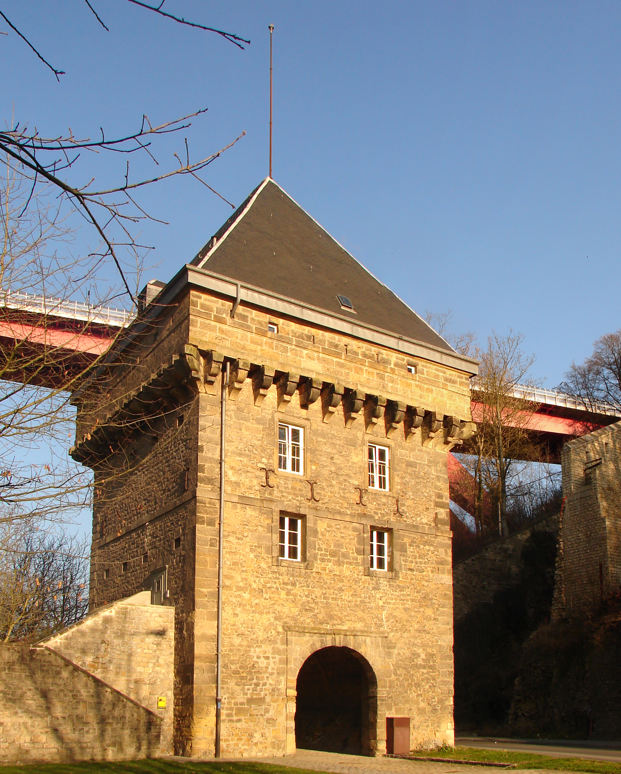 The fortifications of Luxembourg city (Pfaffenthal)